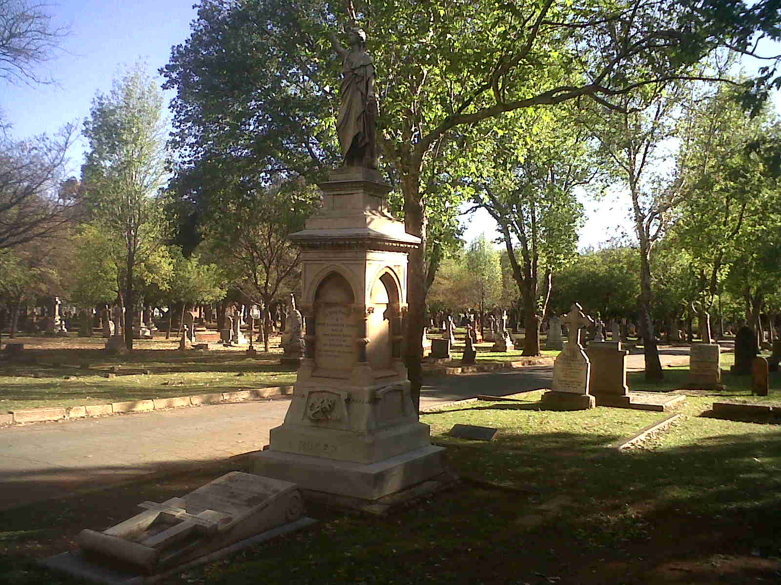 Braamfontein graveyard is a historical graveyard where most of the important people in our history are laid to rest